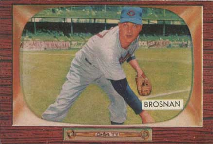 Major League Baseball player Jim Brosnan in 1955.